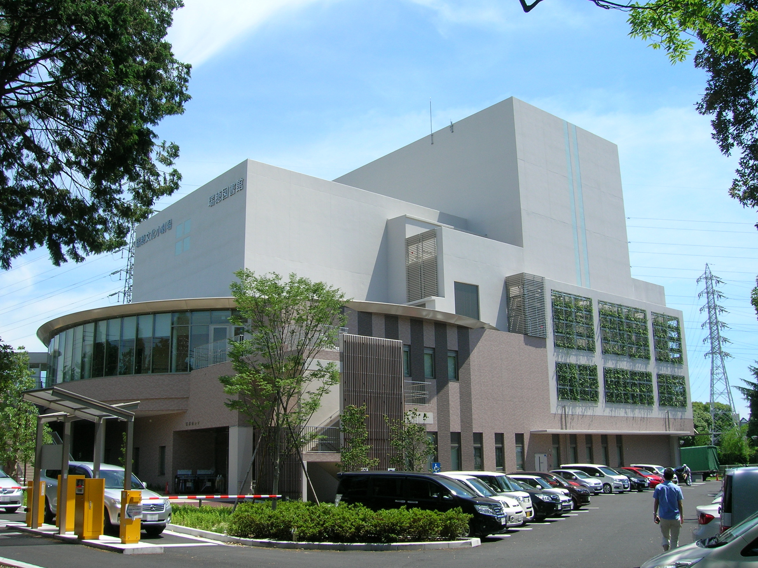 Nagoya City Mizuho Library and Nagoya City Mizuho Playhouse. Loc: Mizuho-ku, Nagoya city, Aichi Prefecture, Japan. 名古屋市瑞穂図書館・名古屋市瑞穂文化小劇場 撮影場所 愛知県名古屋市瑞穂区